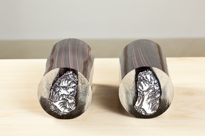 Murrine